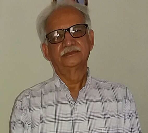 Arun kamal (June 2018)